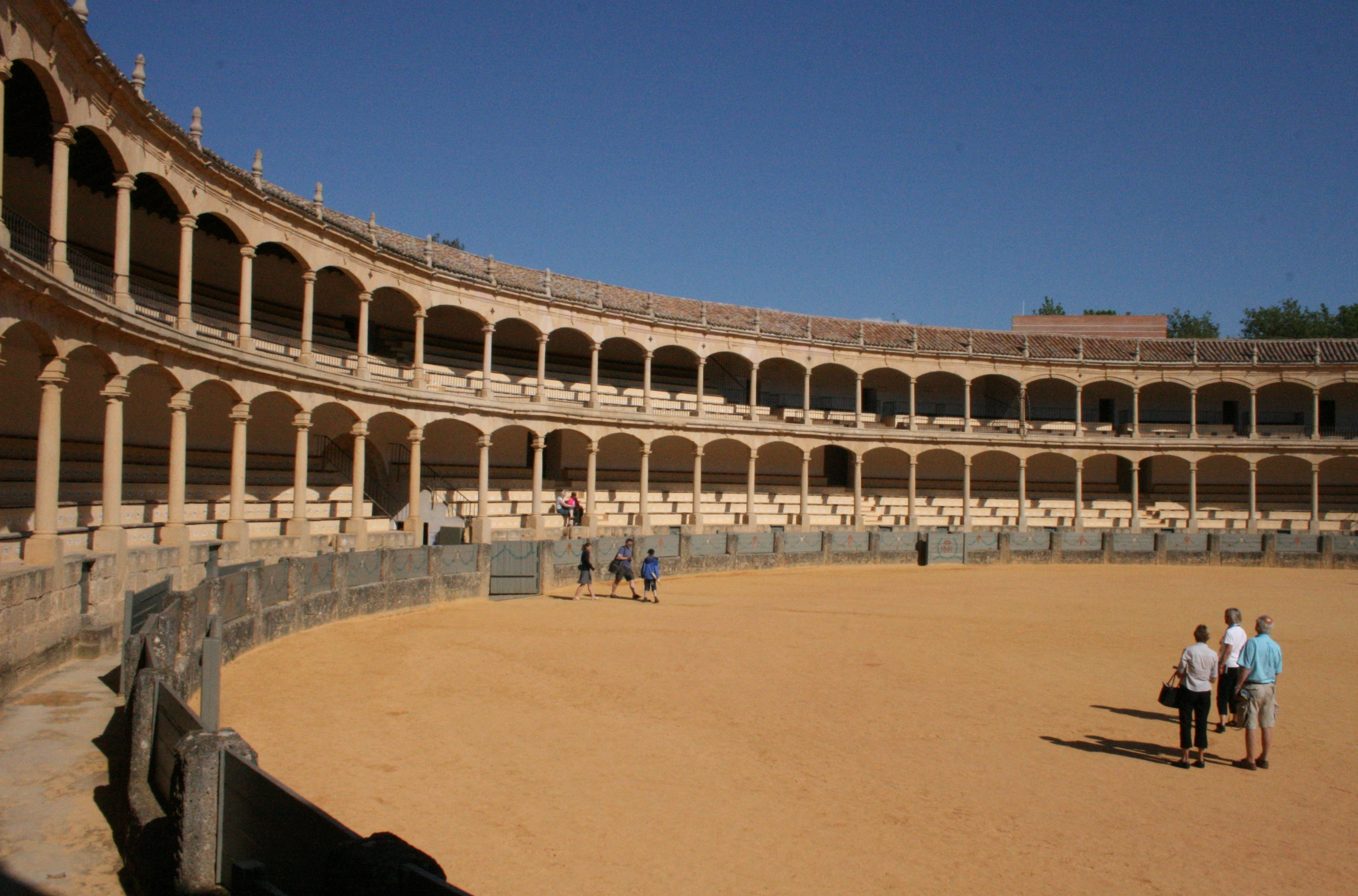 Plaza de Toros (bullring) of Ronda, Spain